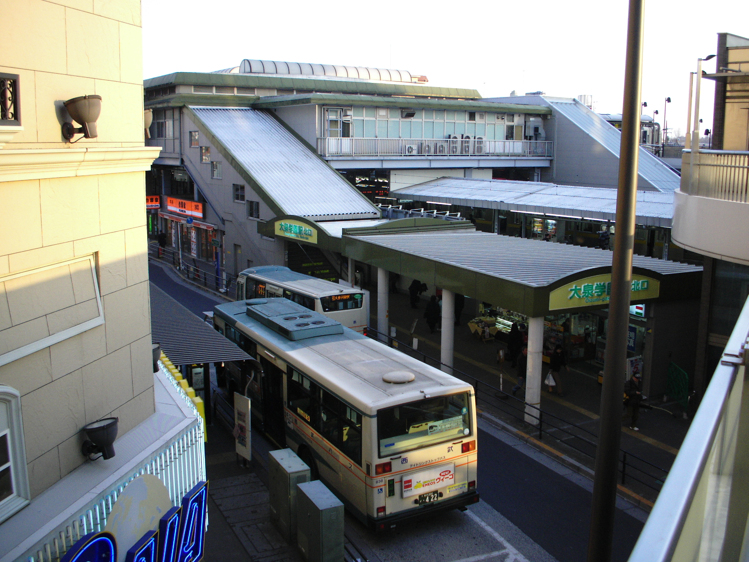 The north exit of Ōizumi-gakuen Station.